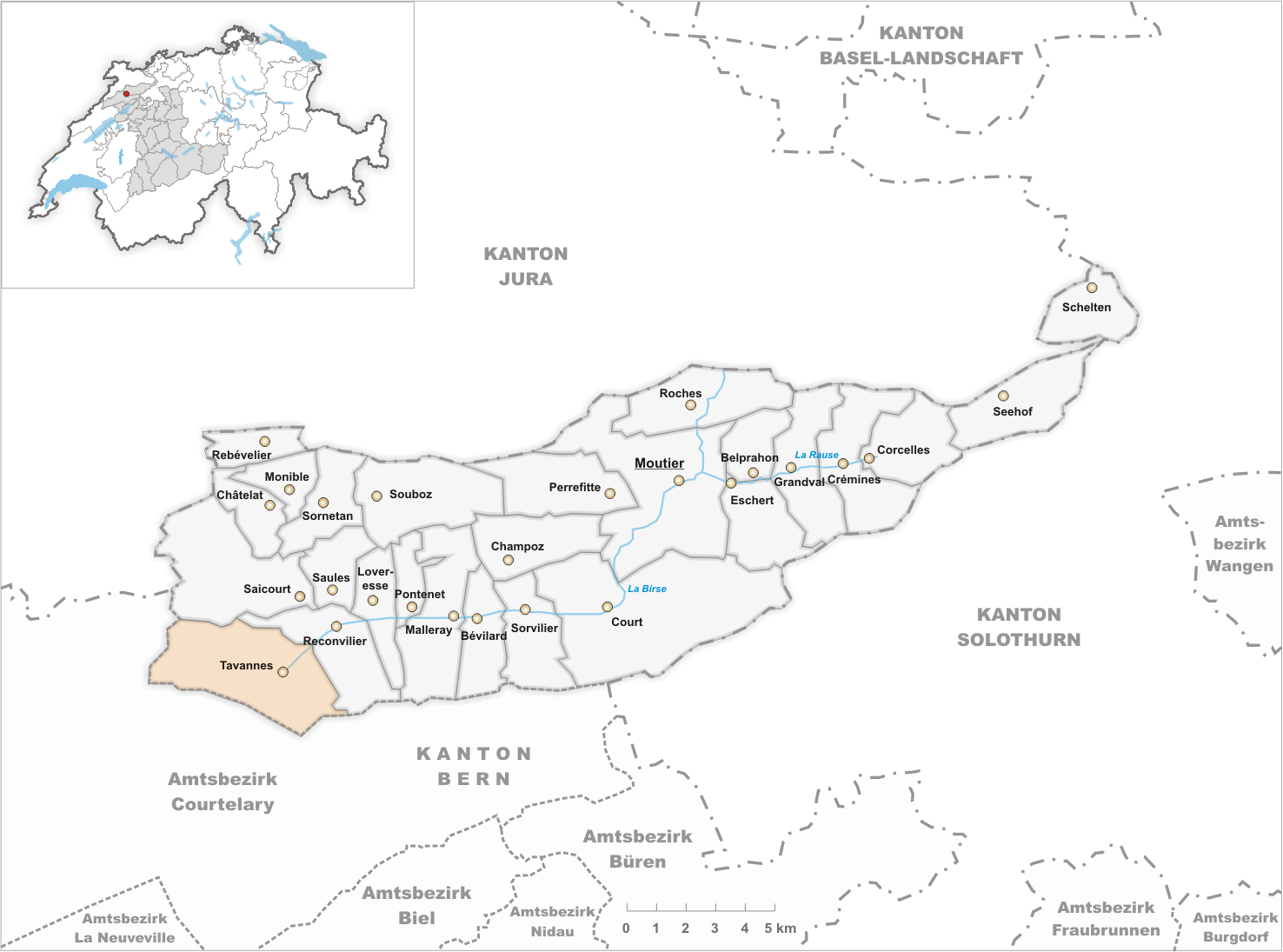 Municipality Tavannes